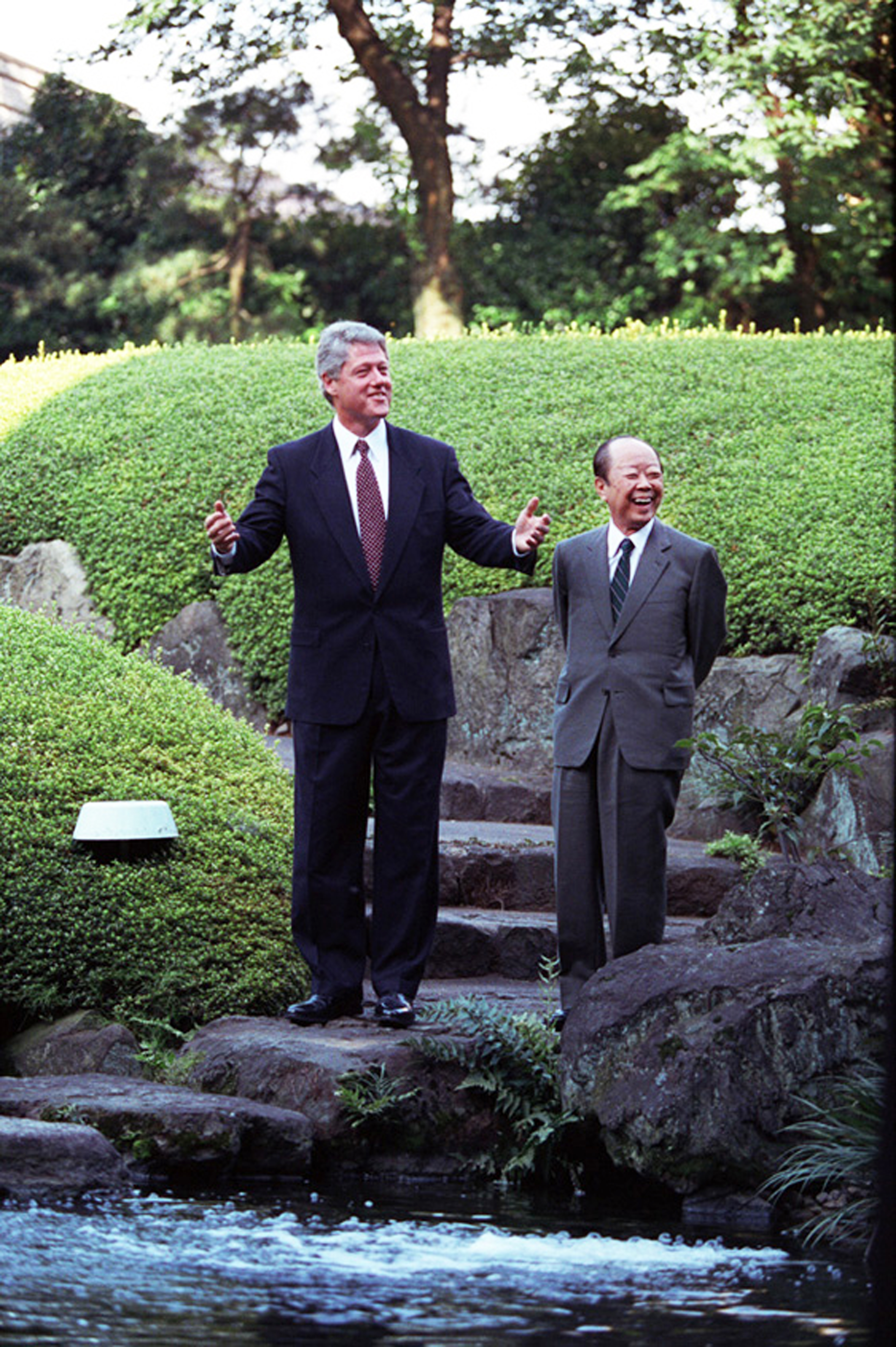 President William J. Clinton with Prime Minister Kiichi Miyazawa in the Garden of Iikura House, 07/06/1993